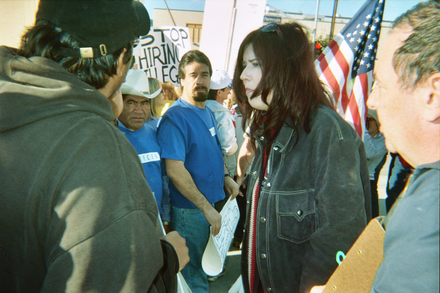 From my personal collection, taken by me in Glendale, California at a Save Our State protest of Home Depot. December 10, 2005. Save Our State protestors as well as counterprotestors are shown.